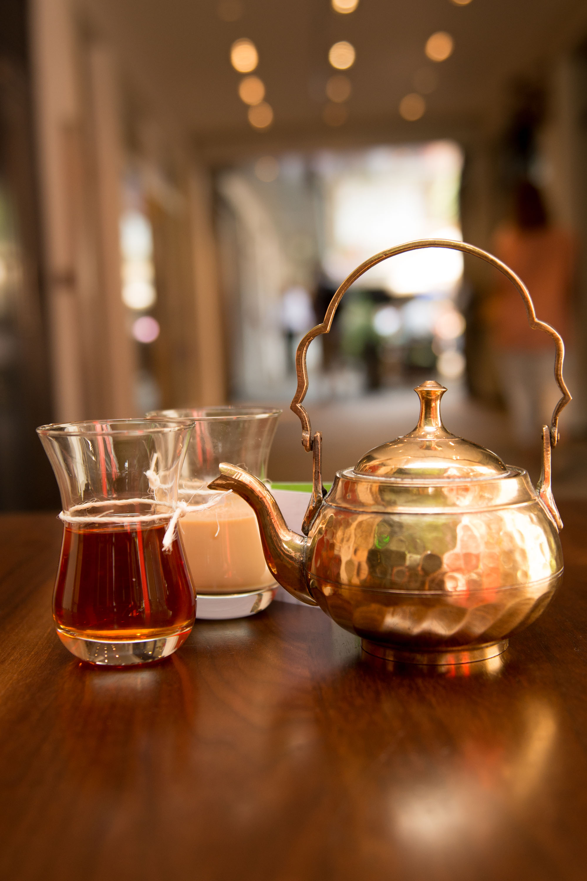 High Chai concept introduced at Cinnamon Soho, third restaurant from Chef Vivek Singh